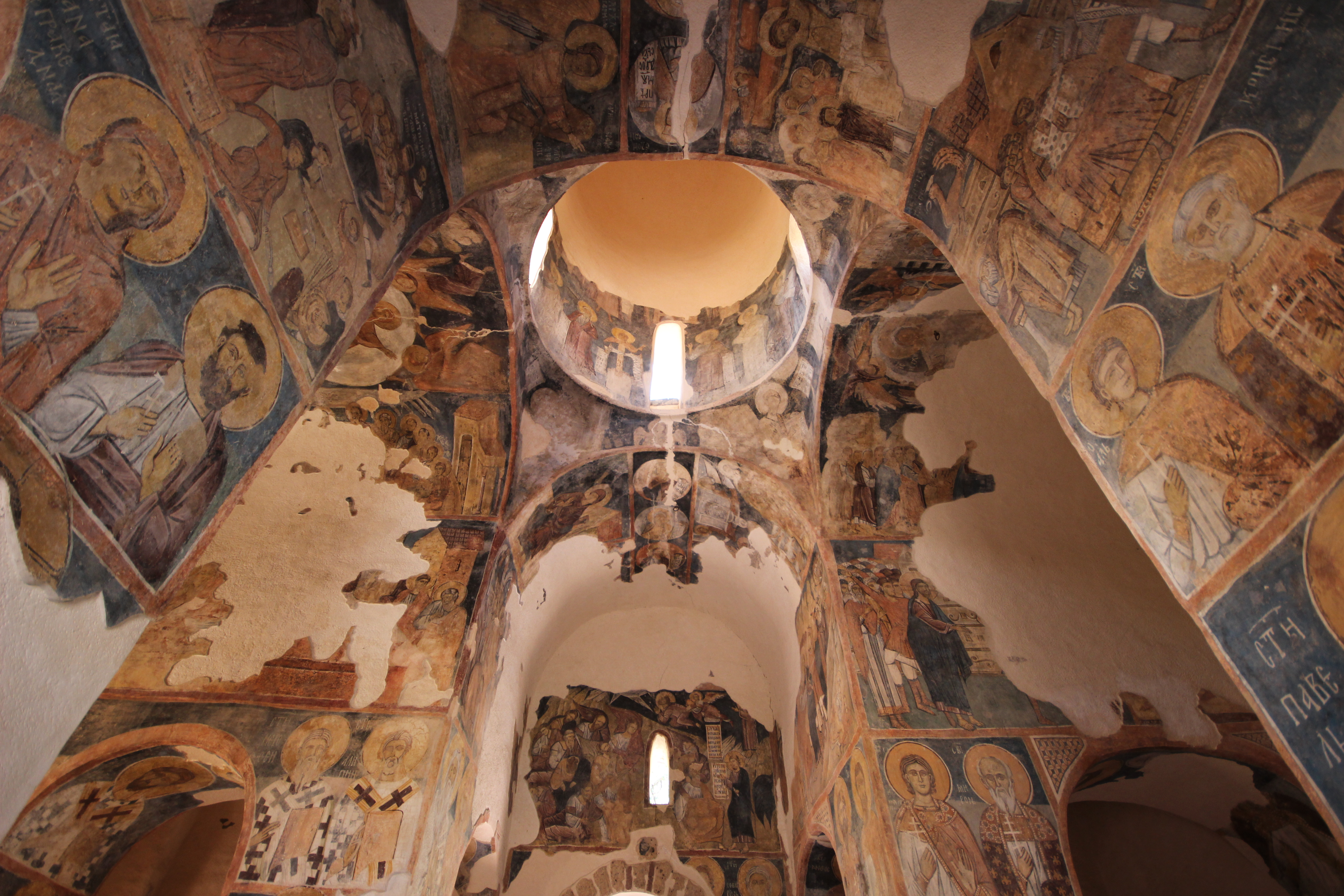 Medieval frescoes in the Zemen Monastery in Bulgaria